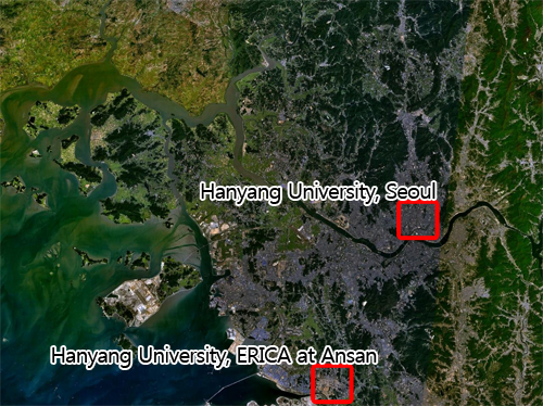 Location of Hanyang University